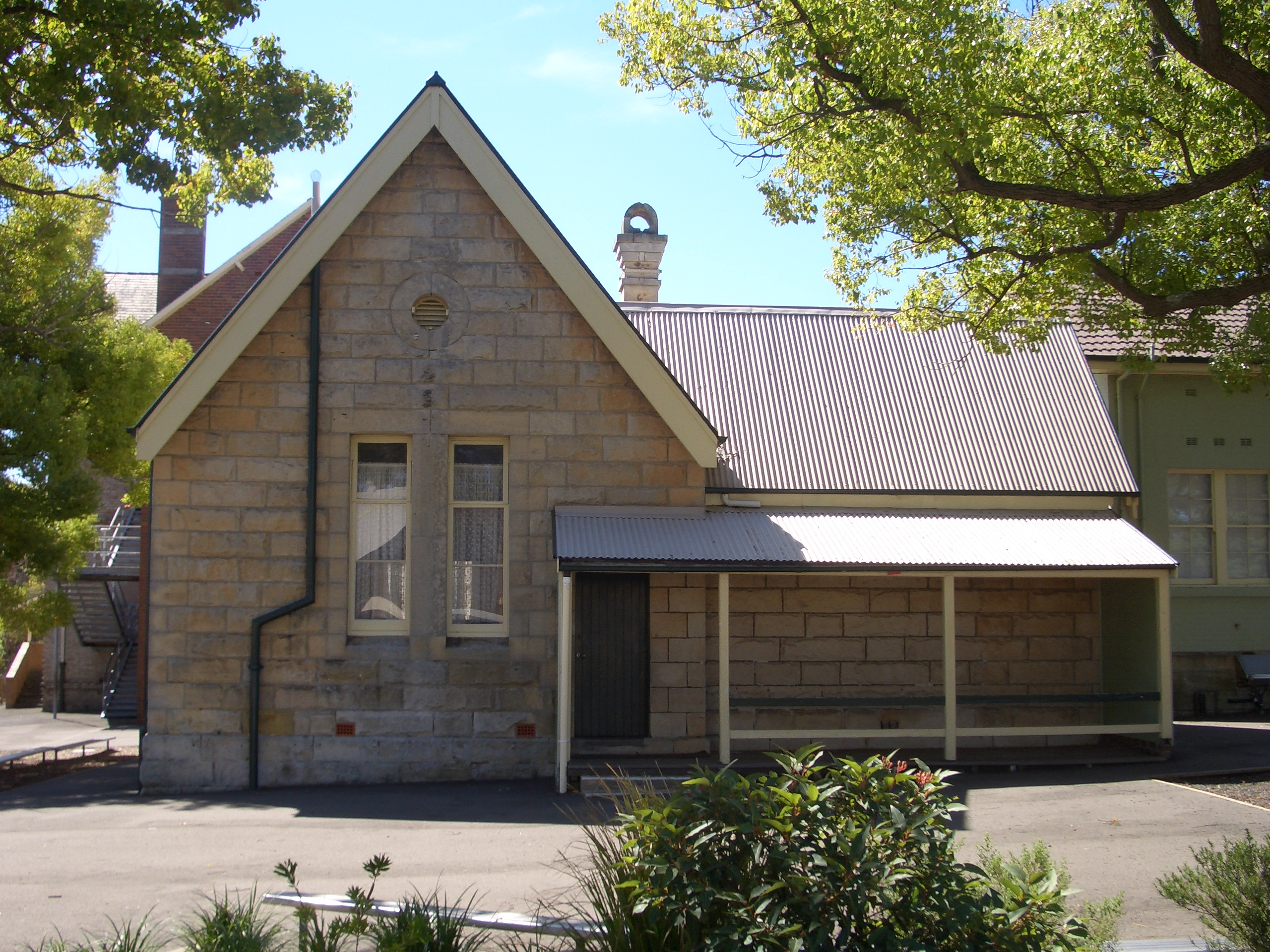 Arncliffe Public School